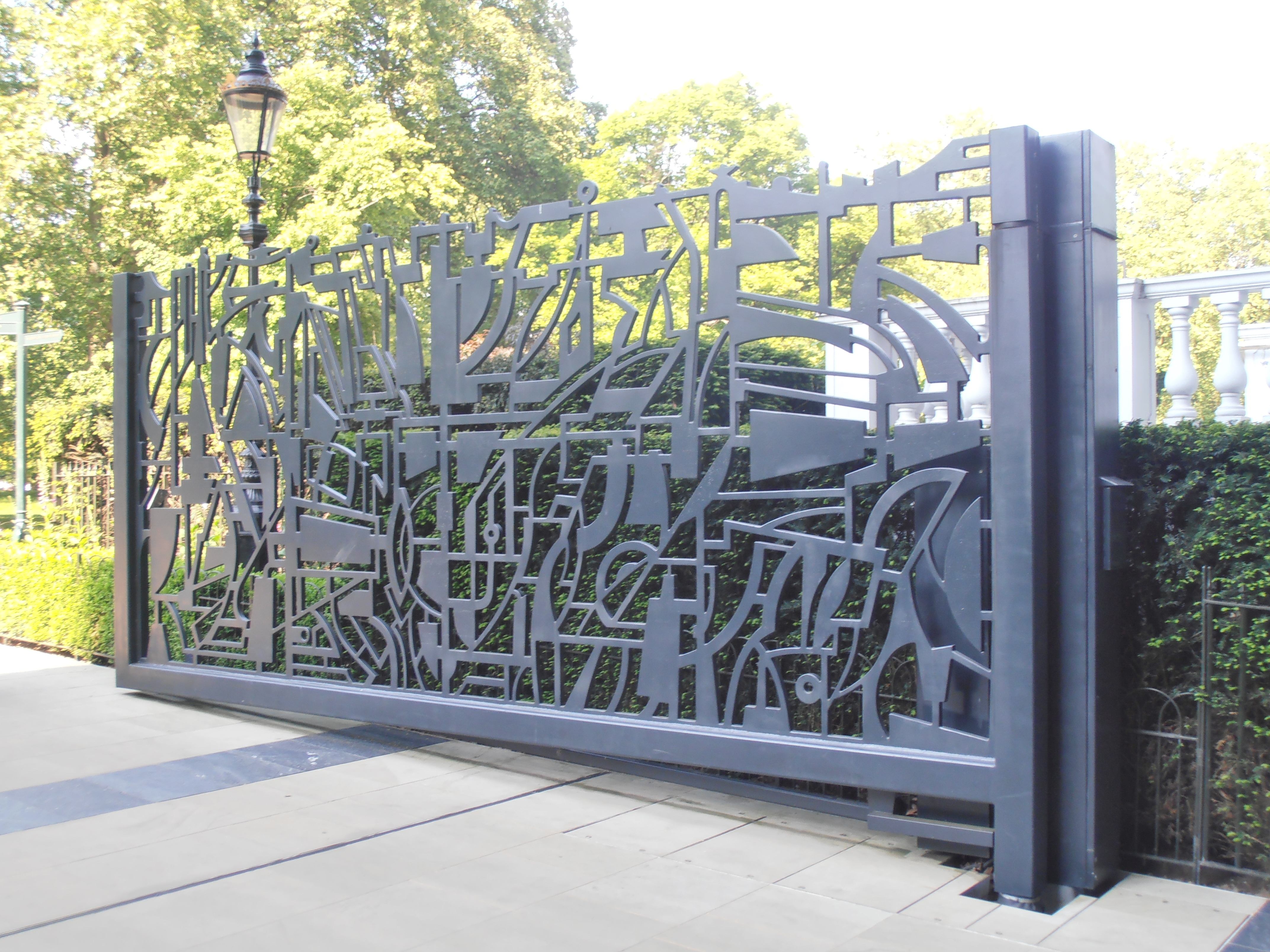 Hyde Park Gate (2010) by Wendy Ramshaw, One Hyde Park, London SW1. The making of this file was supported by Wikimedia UK.